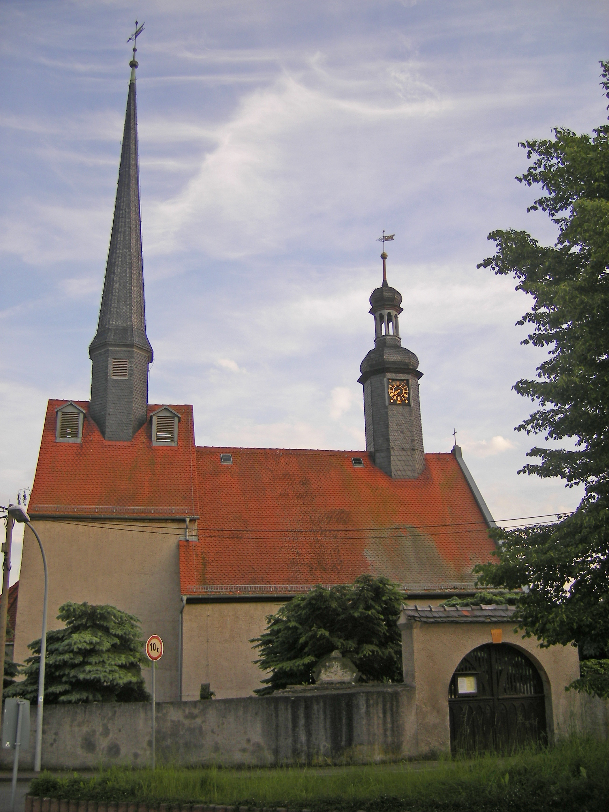 The church in the german village Mockern/Thuringia